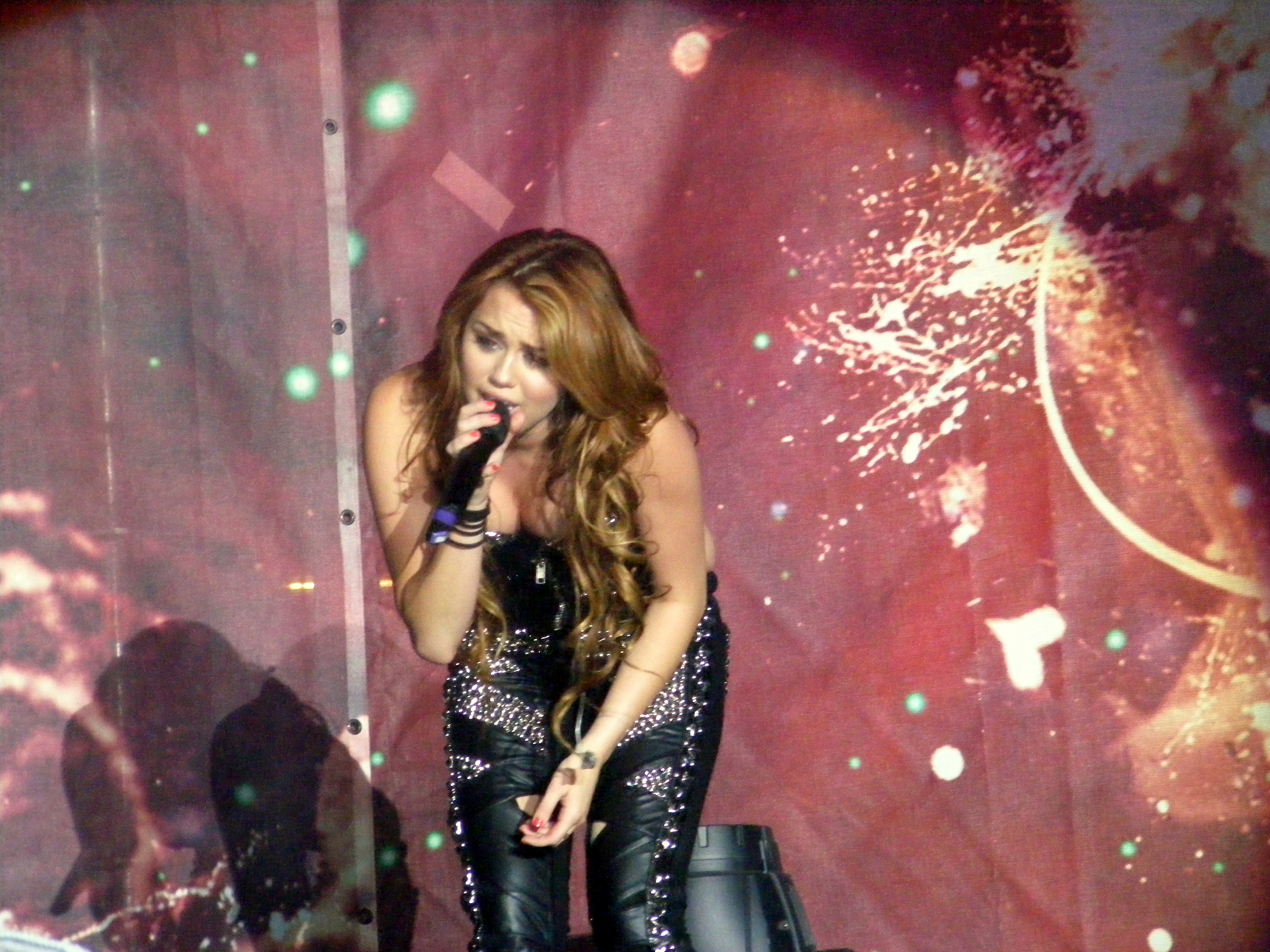 Cyrus performing "7 Things" during her concert in Chile